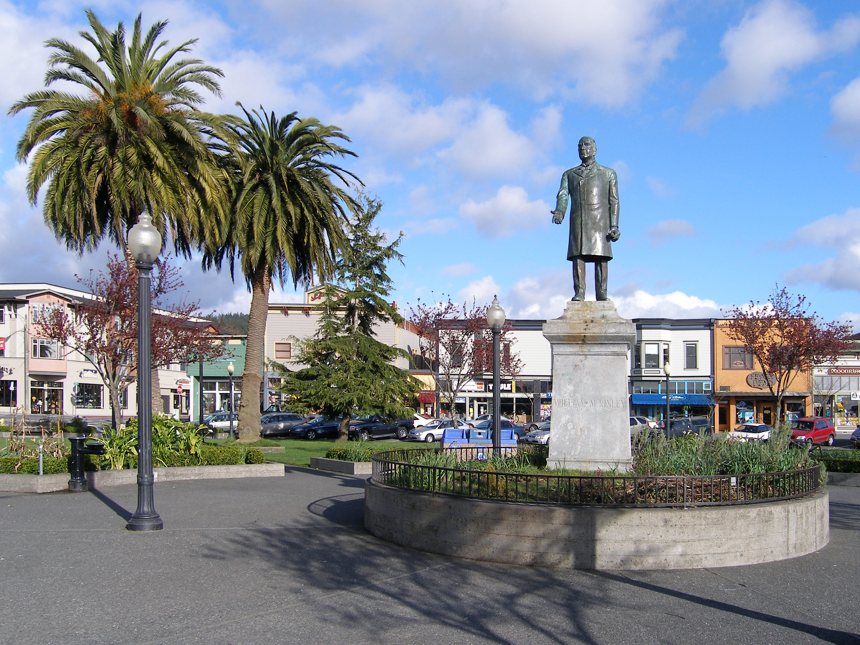 Statue of President William McKinley, by Haig Patigian (1906), Arcata Plaza, Arcata, California, March 7, 2006.